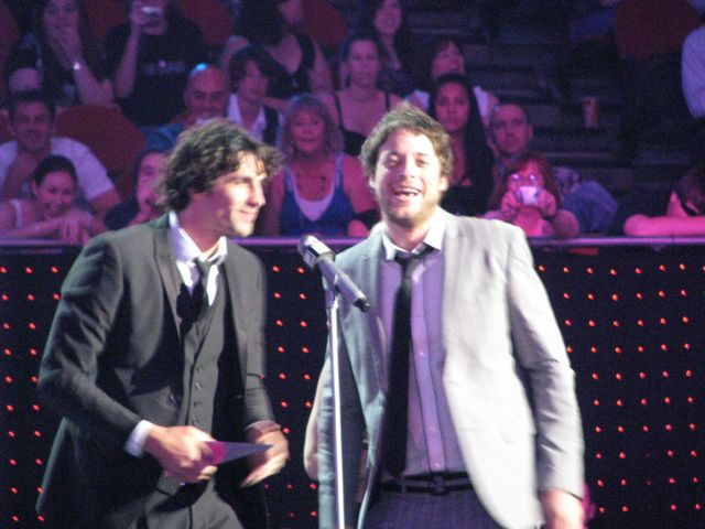 Hamish and Andy at the 2009 ARIA Awards. Either, accepting their award for Best Comedy Release or introducing a category. ARIA awards not Logies.